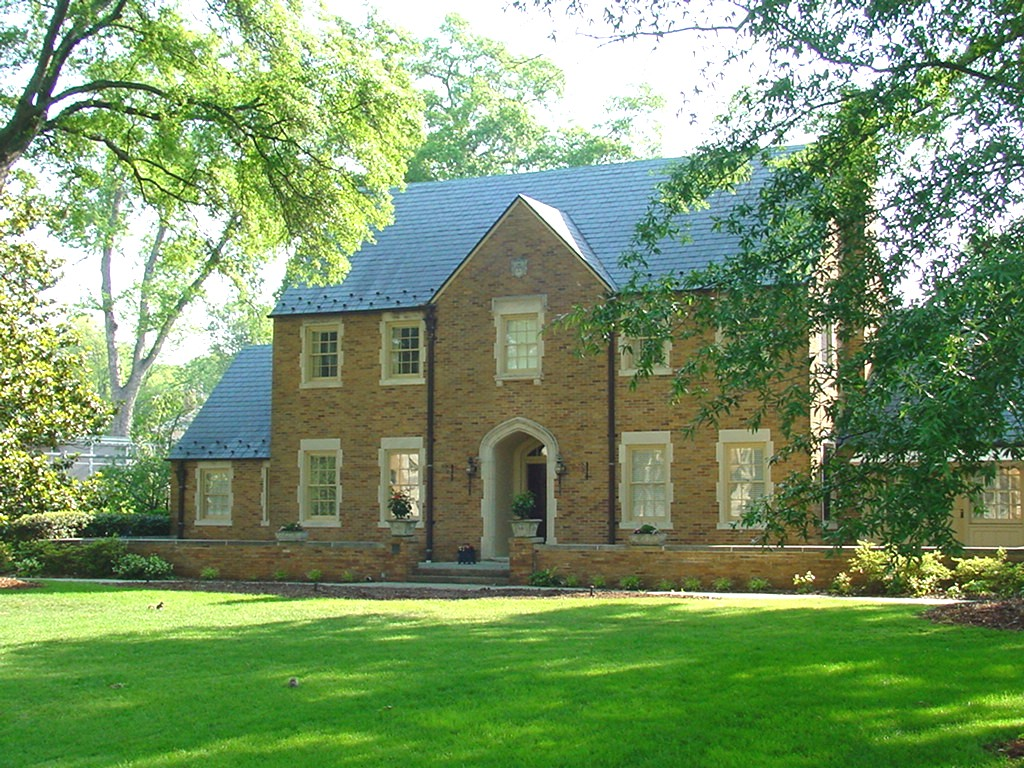 'President's Home — on the University of North Alabama campus in Florence, Alabama. Taken by me in May, 2007.